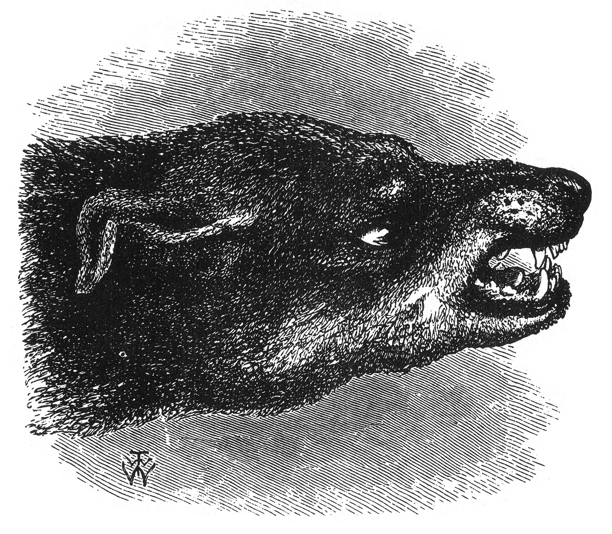 Figure 14 from Charles Darwin's The Expression of the Emotions in Man and Animals. Caption reads "FIG. 14.—Head of snarling Dog. From life, by Mr. Wood." Author's signature is at bottom left. See also figures 9-15 and 18 by the same author.